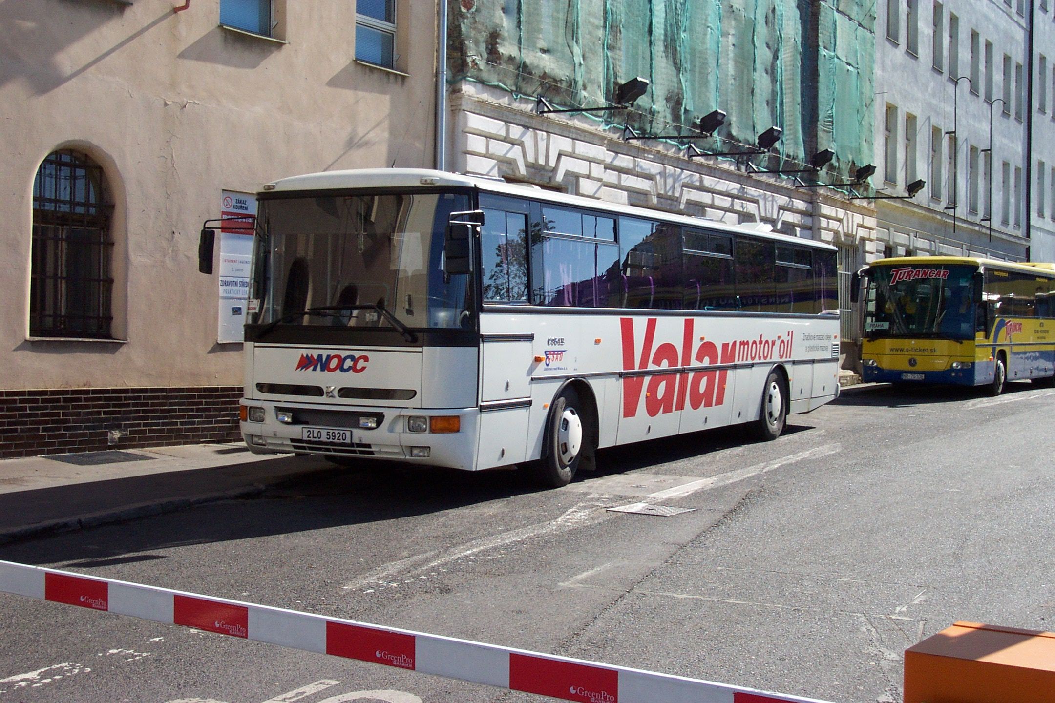 Karosa C954E bus in Prague-Florenc bus terminus